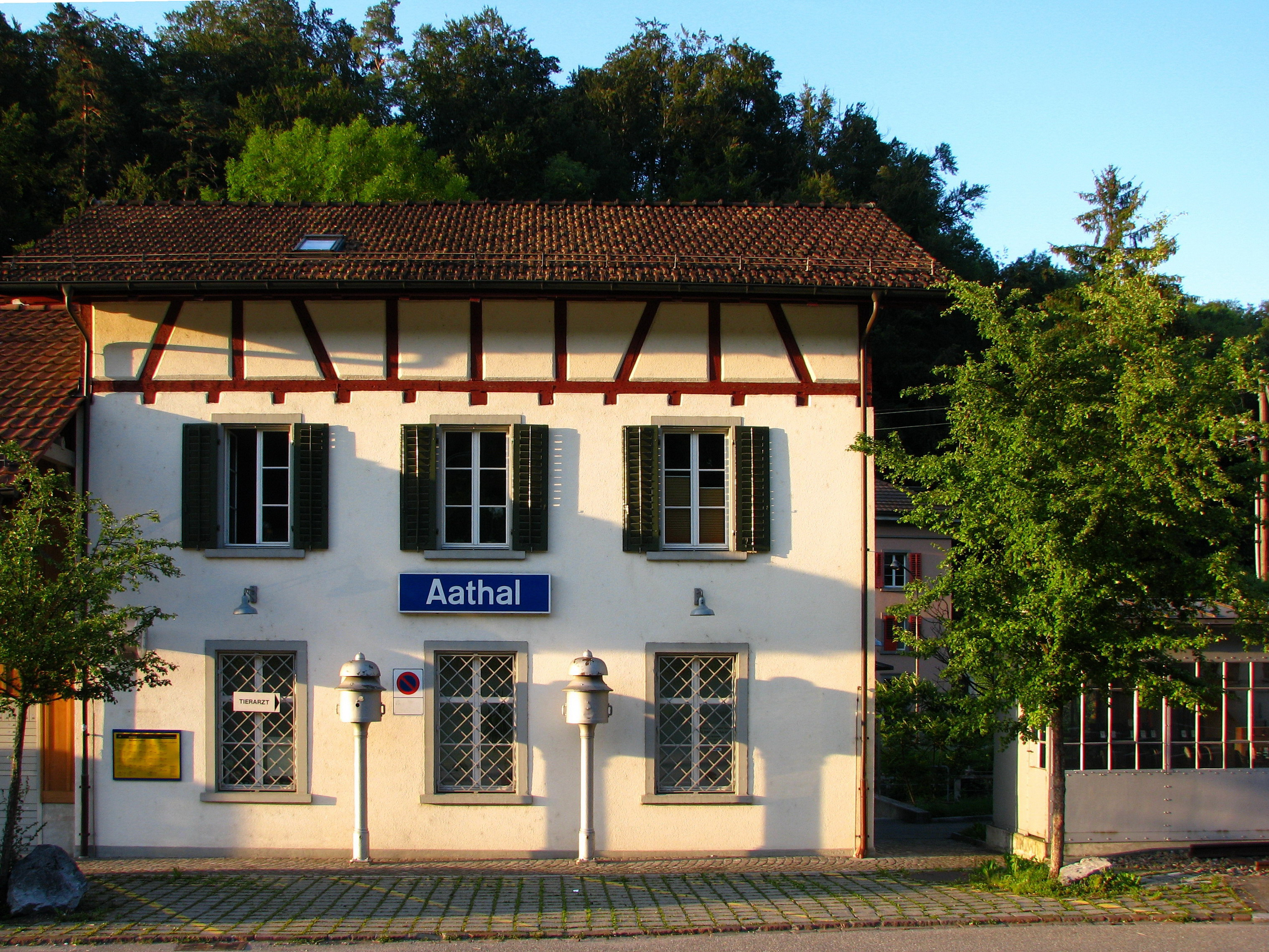 Former building of the train station Aathal in Seegräben (Switzerland)